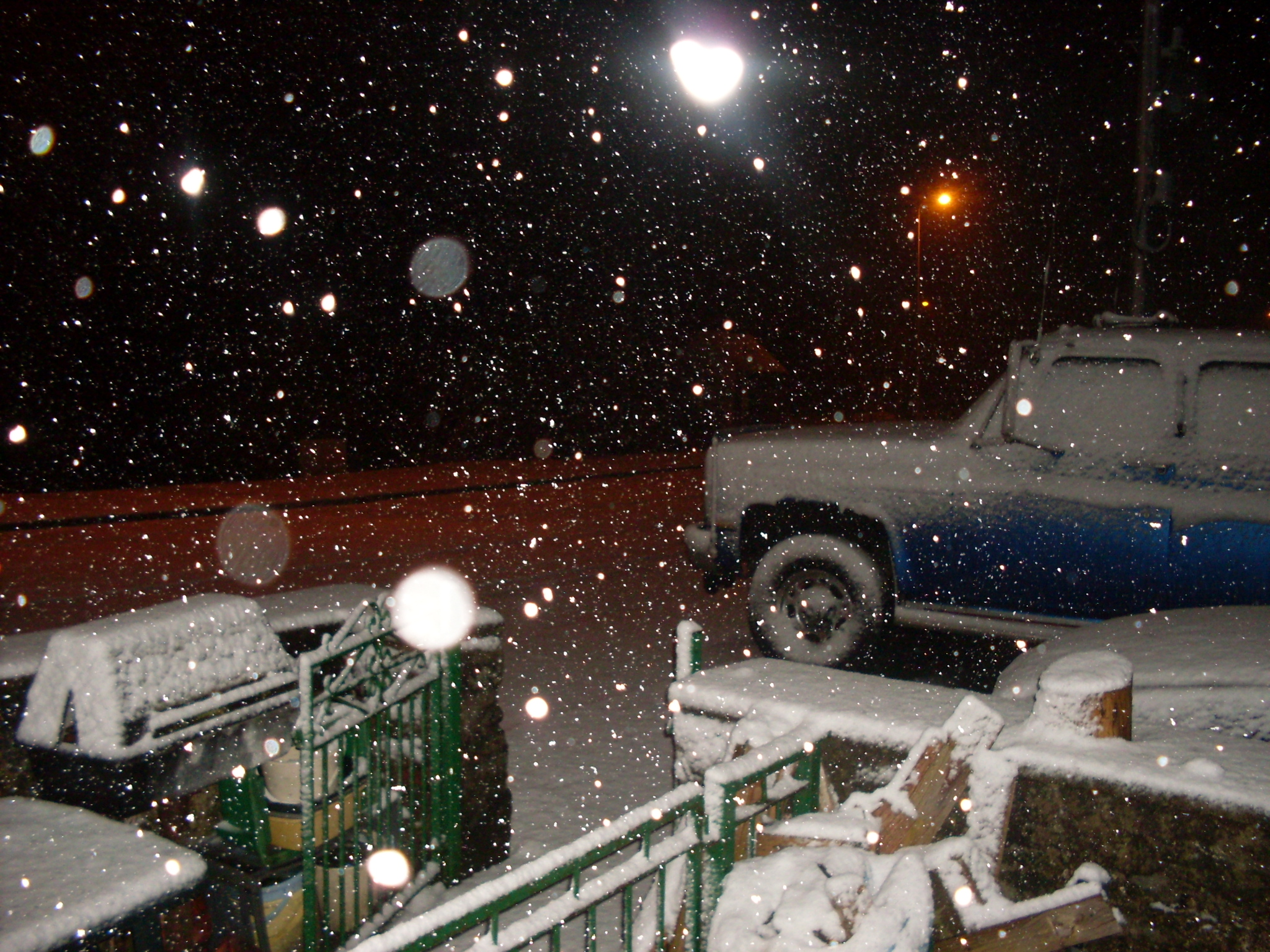 Heavy snowfall in Pant Glas, Gwynedd, taken at approx. 2:00am on 20 February, 2010